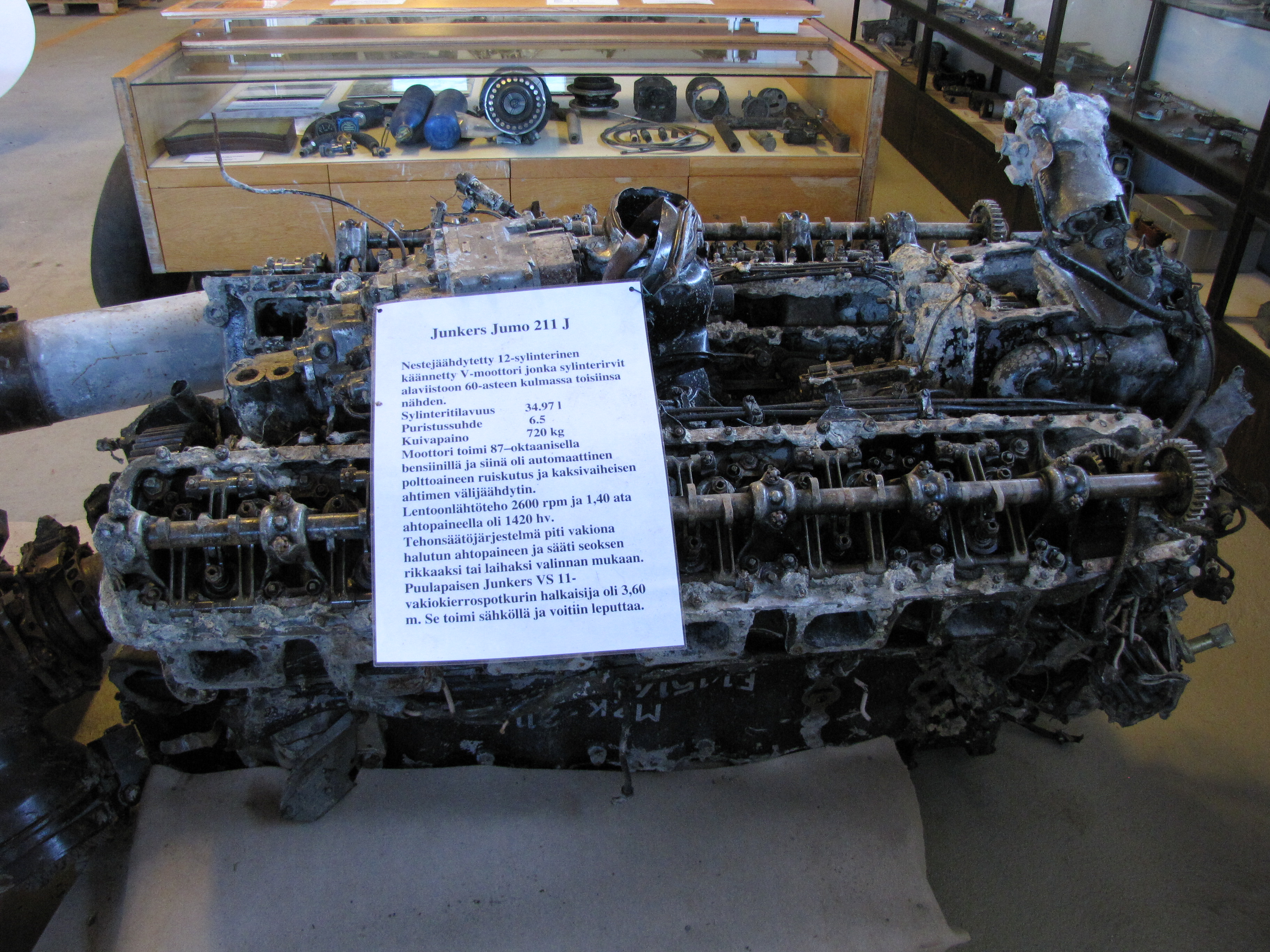 Junkers Jumo 211 J 12-cylinder engine from a crashed Finnish Junkers Ju 88 A-4 bomber, recovered from a lake.